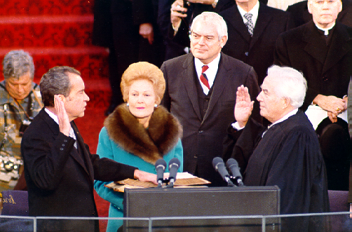 President Richard Nixon is sworn in for a second term as First Lady Pat Nixon holds the Bibles at the East Front of the Capitol in Washington, D.C. Chief Justice Warren Burger administers the oath.